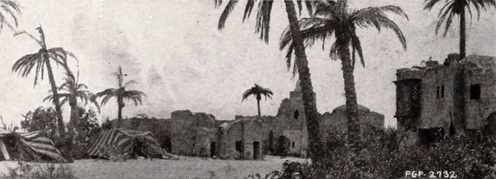 Still of a set during the production of the American film Burning Sands (1922), on page 46 of the June 24, 1922 Exhibitors Herald.